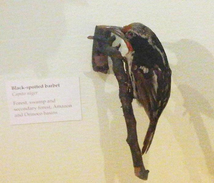 Taxidermied Black-spotted Barbet (Capito niger) at the Natural History Museum in London, England.